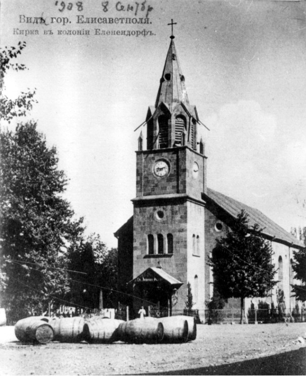 Church (Kirche) in Helenendorf (today - Goygol in Azerbaijan)